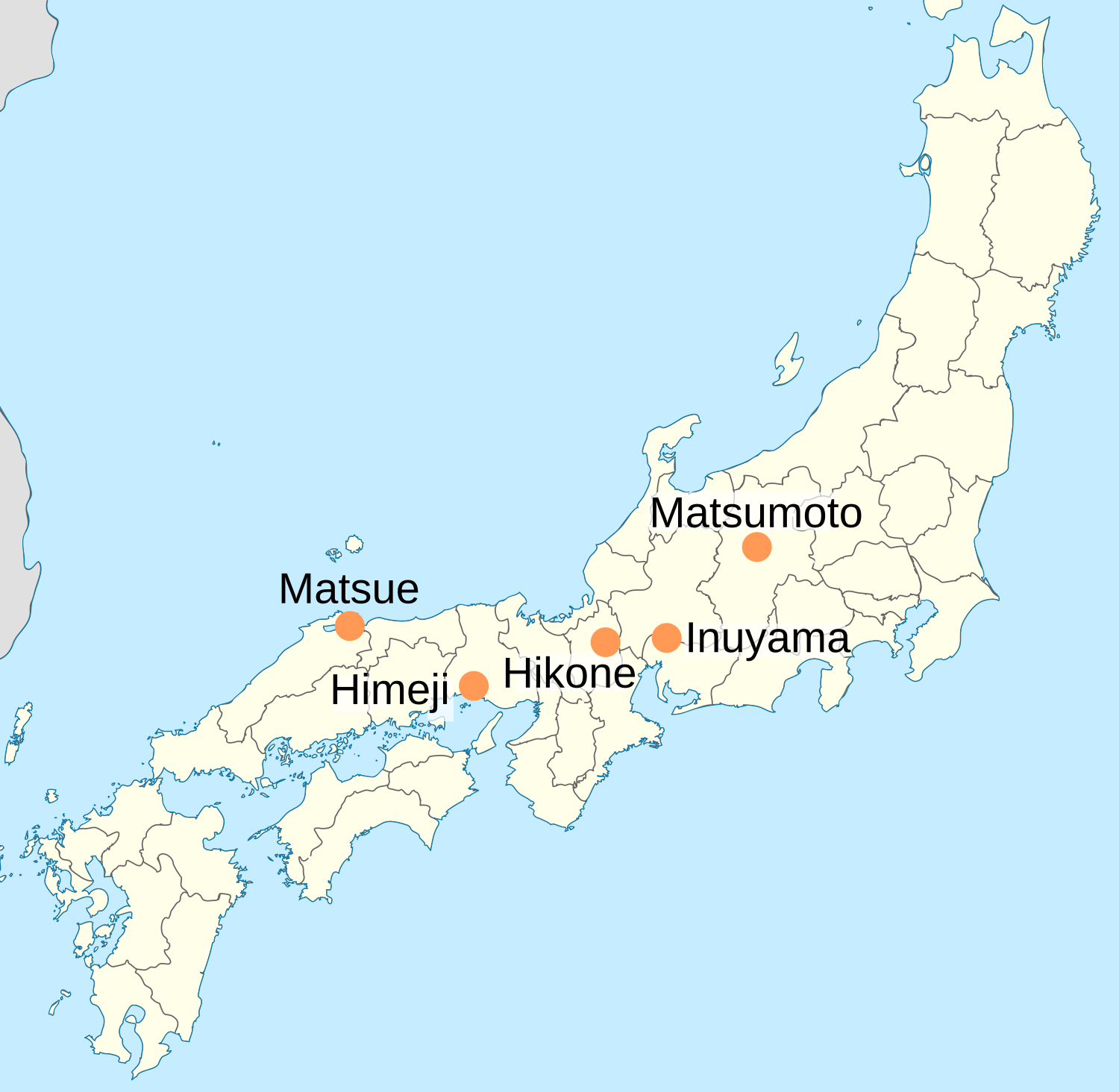 Map showing the location of National Treasures of Japan in the category castles.